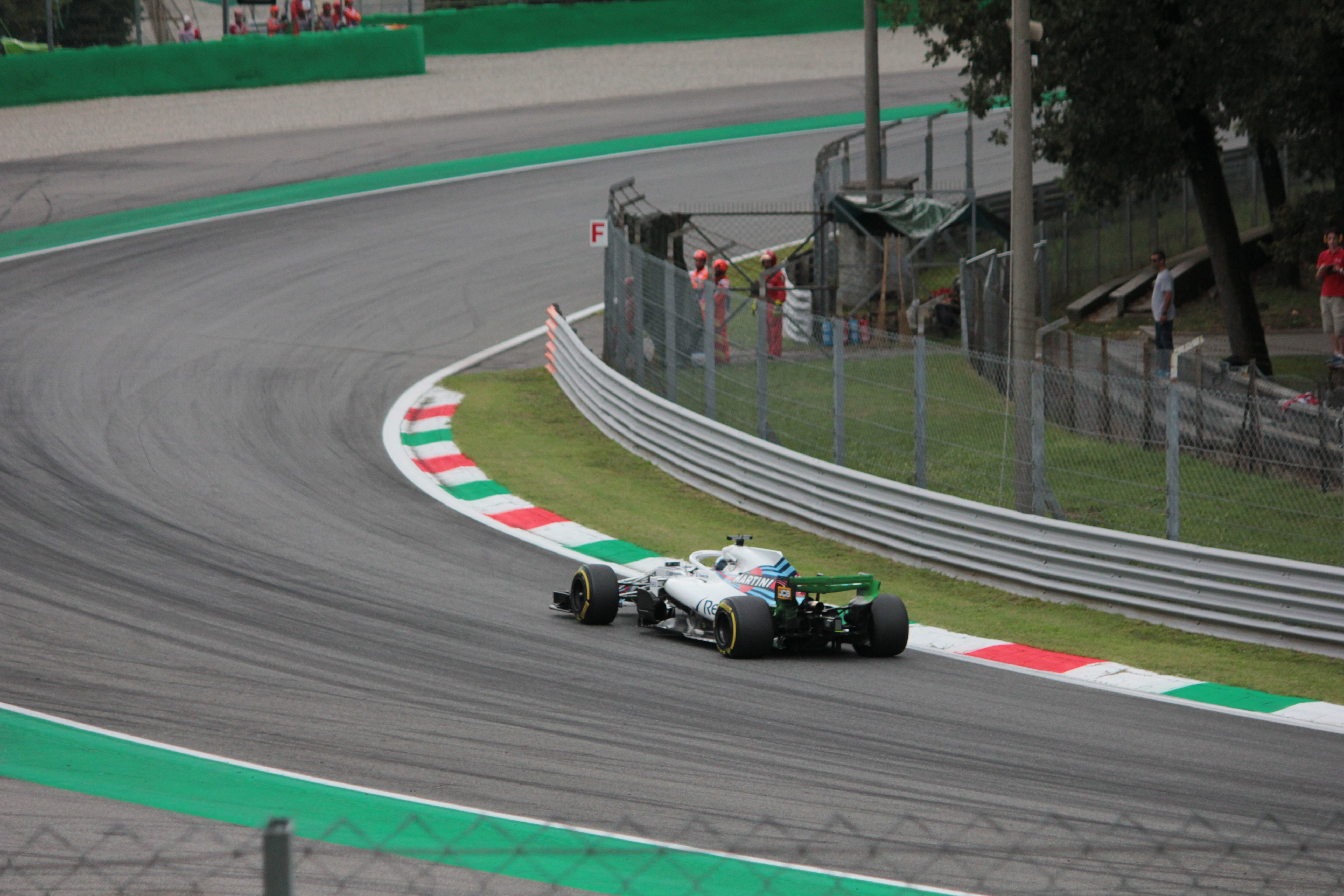 Williams driver Lance Stroll during the first free practice session of the 2018 Italian Grand Prix.